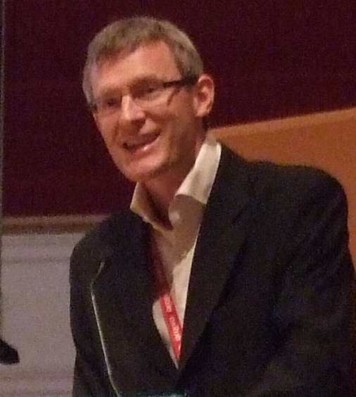 crop of Jeremy Vine at a podium presenting at The Radio Festival.